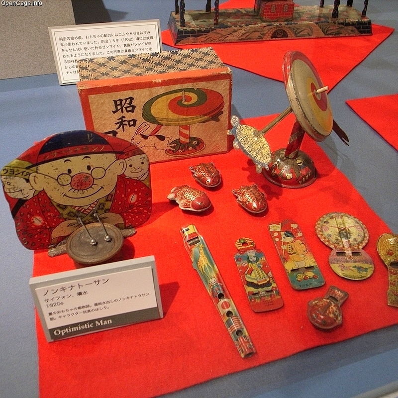 The tinplate toys in 1920s Japan on display at the Arima Toys & Automata Museum.